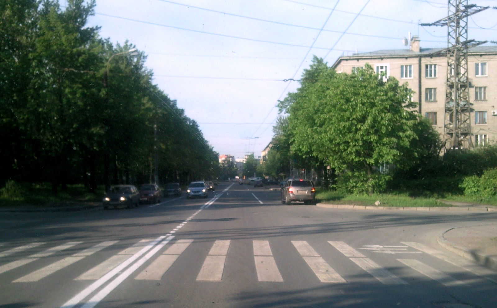 Zaytseva Street in St. Petersburg (Novostroyek St. crossing)